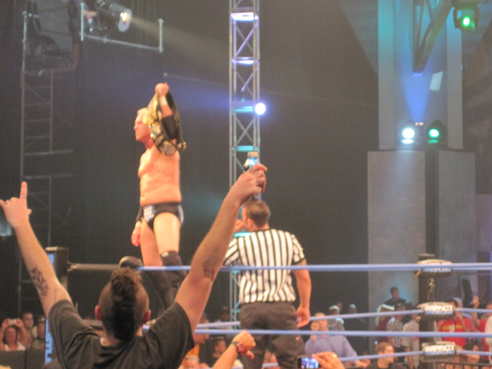 Sunday, June 12, 2011. Universal Orlando